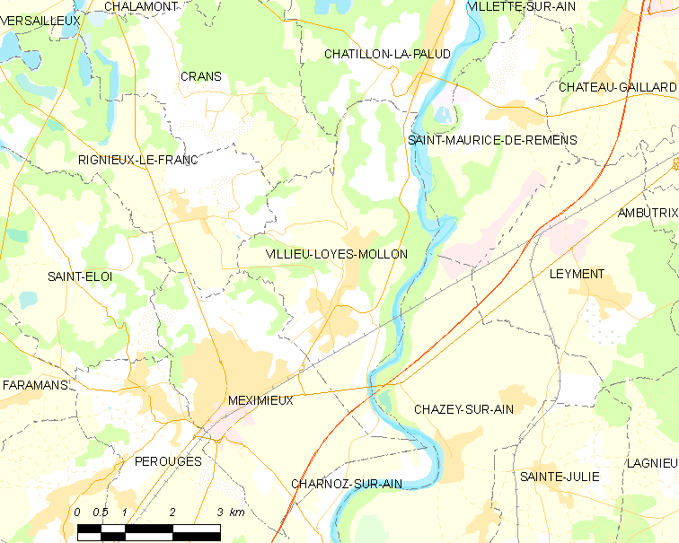 Map of French commune: Villieu-Loyes-Mollon Map commune FR insee code 01450.png